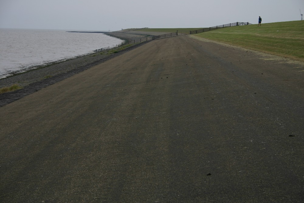 Slope of the Wadden Sea dike in Friesland.